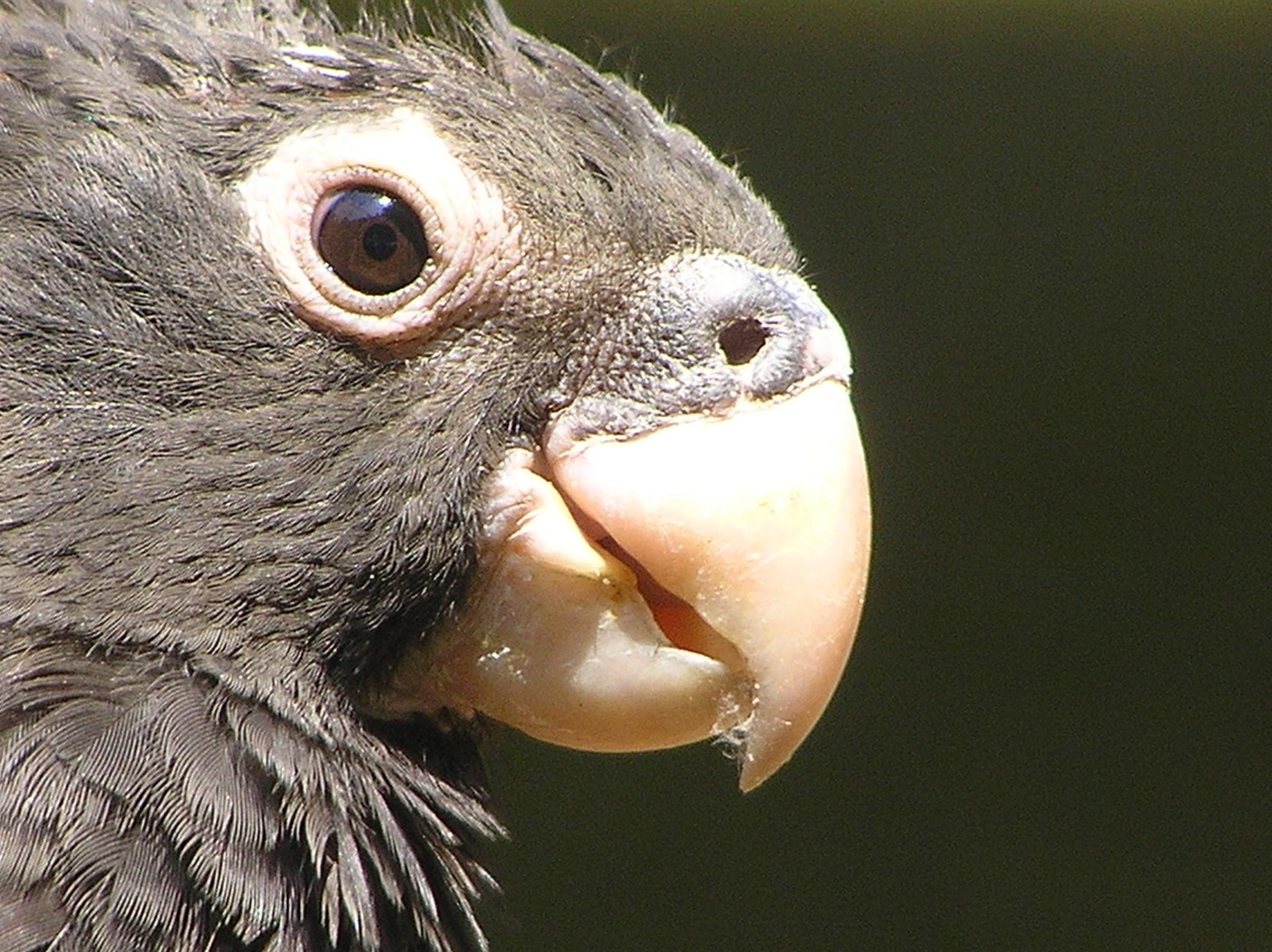 Greater Vasa Parrot (Caracopsis vasa) in a Antwerp zoo.